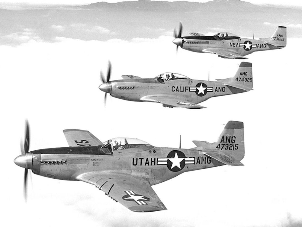 144th Fighter Group - 3 F-51 flight. The 144th Fighter Group at the time was composed of the 191st FS in Utah, 194th FS in CA, and the 192nd FS in Nevada. The 144th Fighter Group HQ. and the 194th Fighter Squadron were at the Hayward Airport in California.